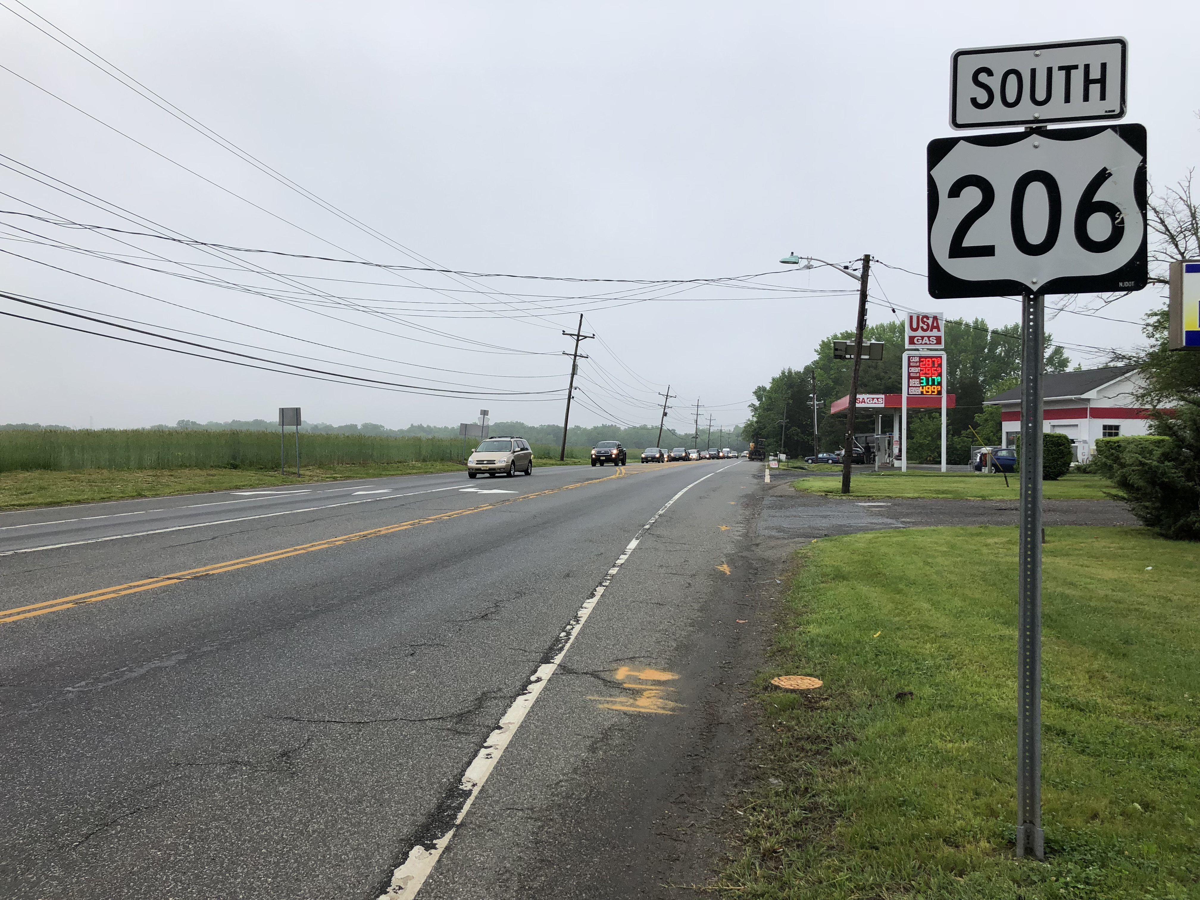 View south along U.S. Route 206 at Burlington County Route 630 (Woodlane Road/Pemberton Road) along the border of Eastampton Township and Pemberton Township in Burlington County, New Jersey